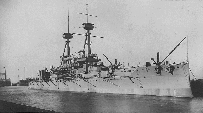 HMS Vanguard (1909) sunk in 1917, so this image is surely in the public domain. The PNG crusade bot automatically converted this image to the more efficient PNG format. The image was previously uploaded as "HMS Vanguard (1909)a.gif". 14:23:35, 1 October 2004 (UTC) . . SpookyMulder (Talk Contribs) . . 783x455 (206,638 bytes) (site says its public domain. same site as HMS_Queen.jpg) (All user names refer to en.wikipedia) Uncropped version shows commercial photo markings. 2007-06-19 20:09 PNG crusade bot 783×455×8 (175176 bytes)